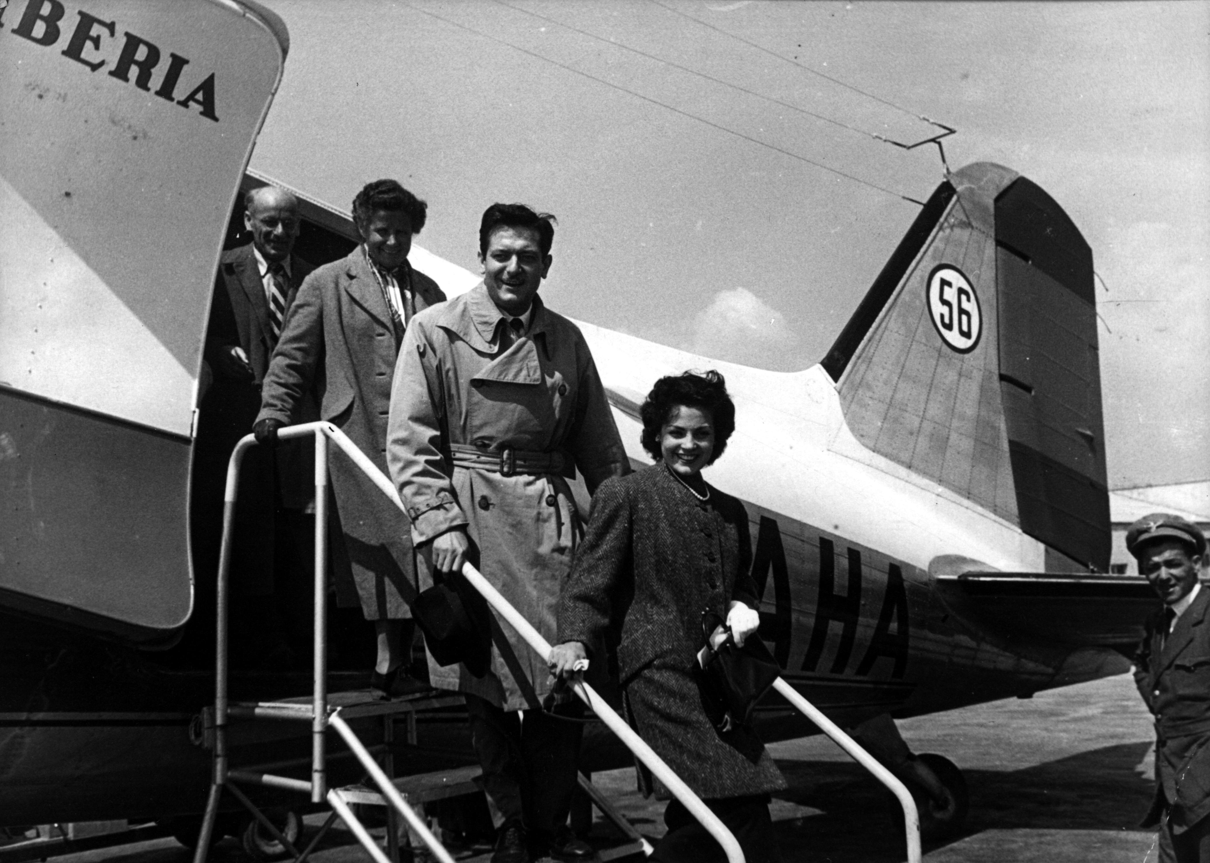 Actors Carmen Sevilla and Alberto Closas disembarking an Iberia DC-3 at Madrid's Barajas Airport in 1948.